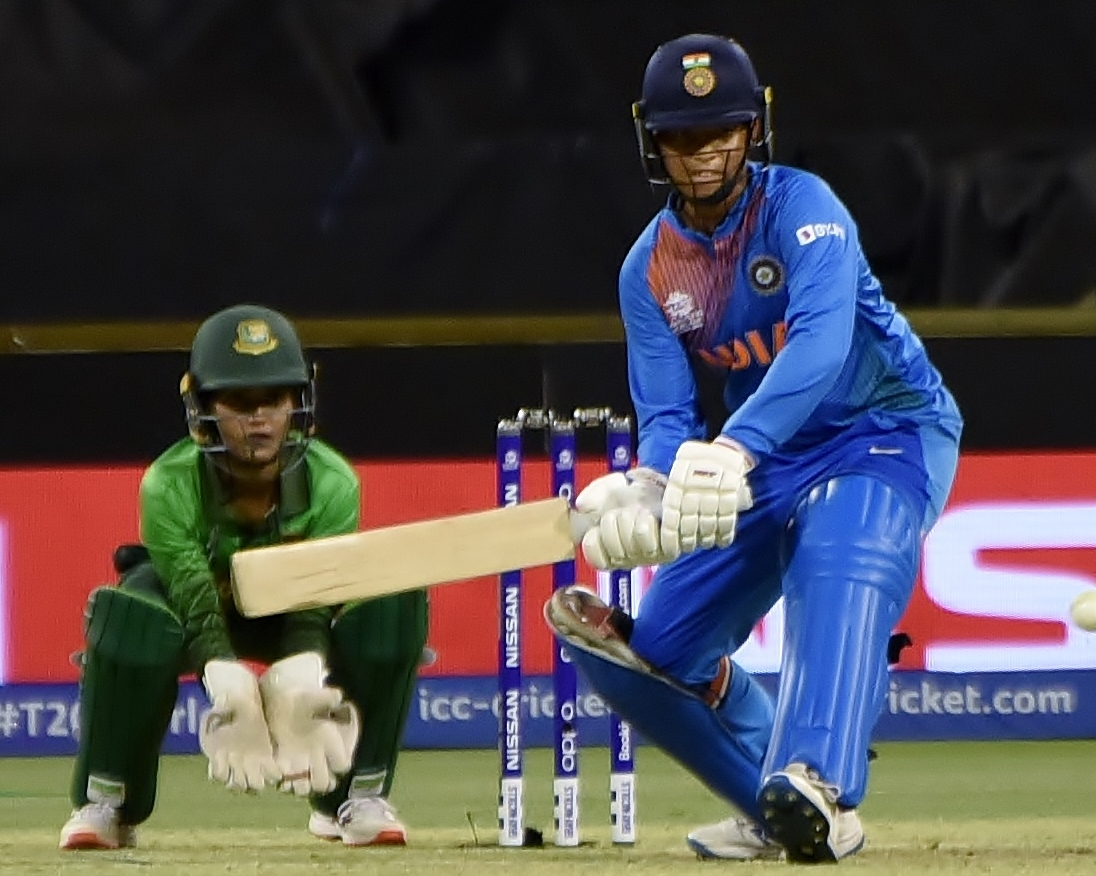 Richa Ghosh batting for India against Bangladesh during their 2020 ICC Women's T20 World Cup match at the WACA Ground in Perth, Australia. The wicket-keeper is Nigar Sultana (cricketer).